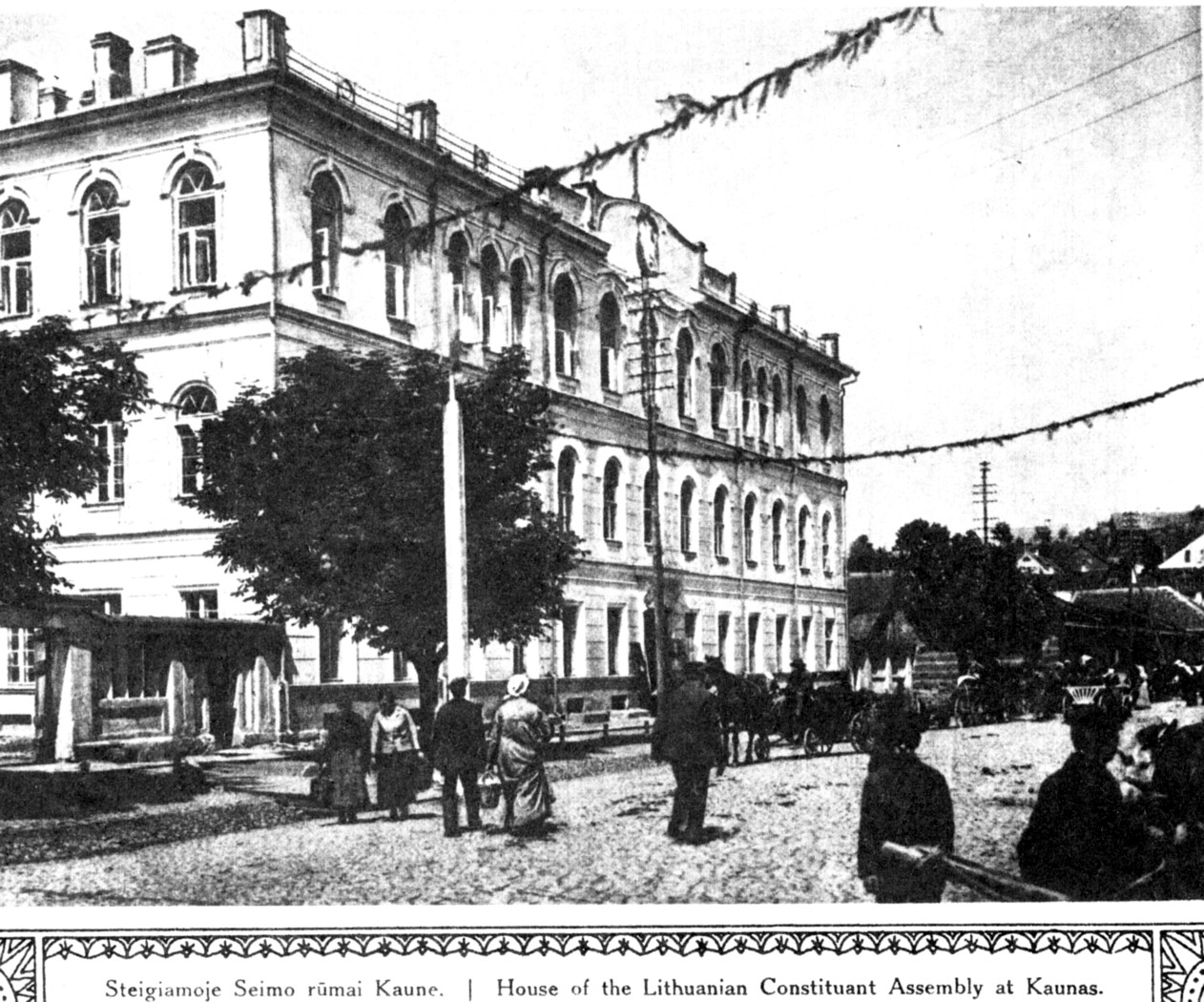 House of Constituent Assembly of LithuaniaLietuvių: Lietuvos Steigiamojo Seimo rūmai, dabar Kauno Maironio gimnazija